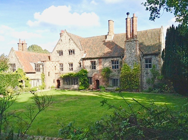 Photo of Runton Old Hall, Norfolk, England from the SW. West lawn and South and West wings.